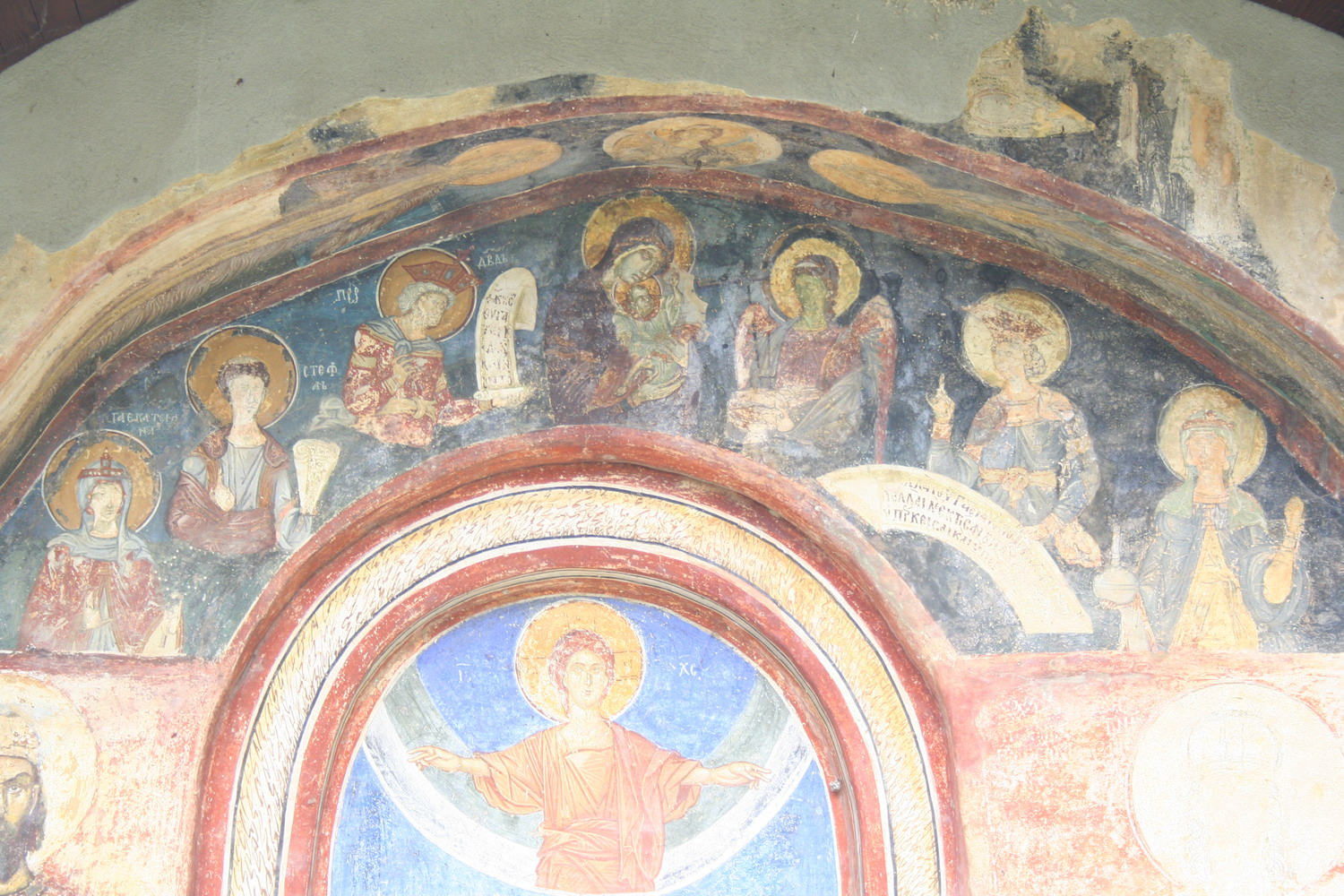 Frescos in St. Demetrius Church in Markova Sušica, Macedonia